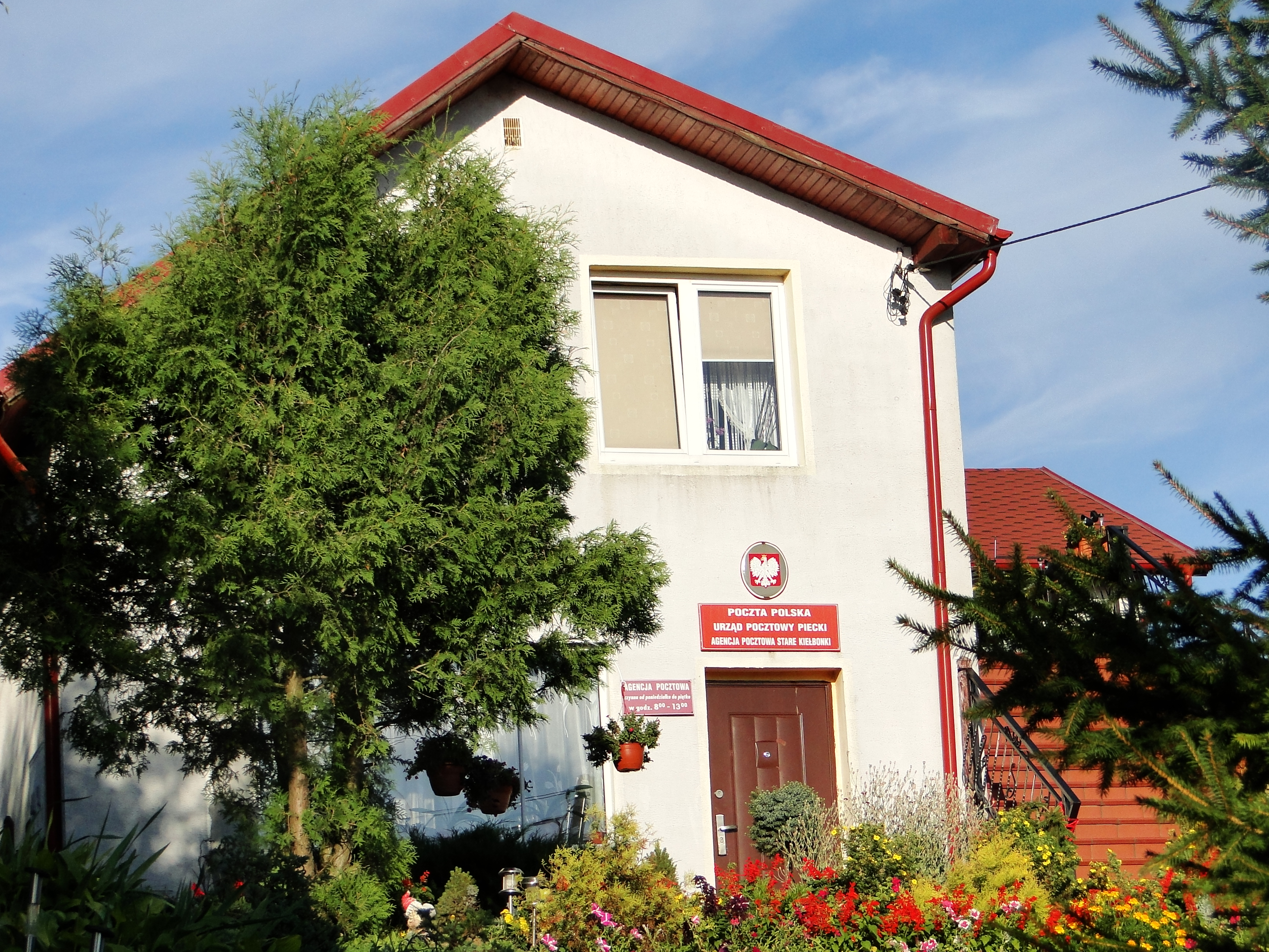 Post office in Stare Kiełbonki, Poland